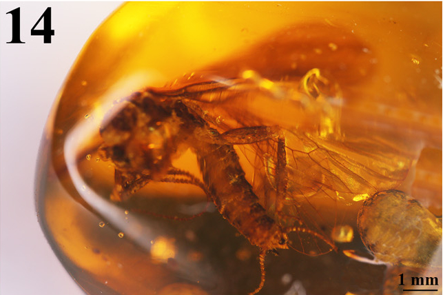 FIGURES 14–19. Largusoperla arcus, holotype male.14. Habitus, ventrolateral view